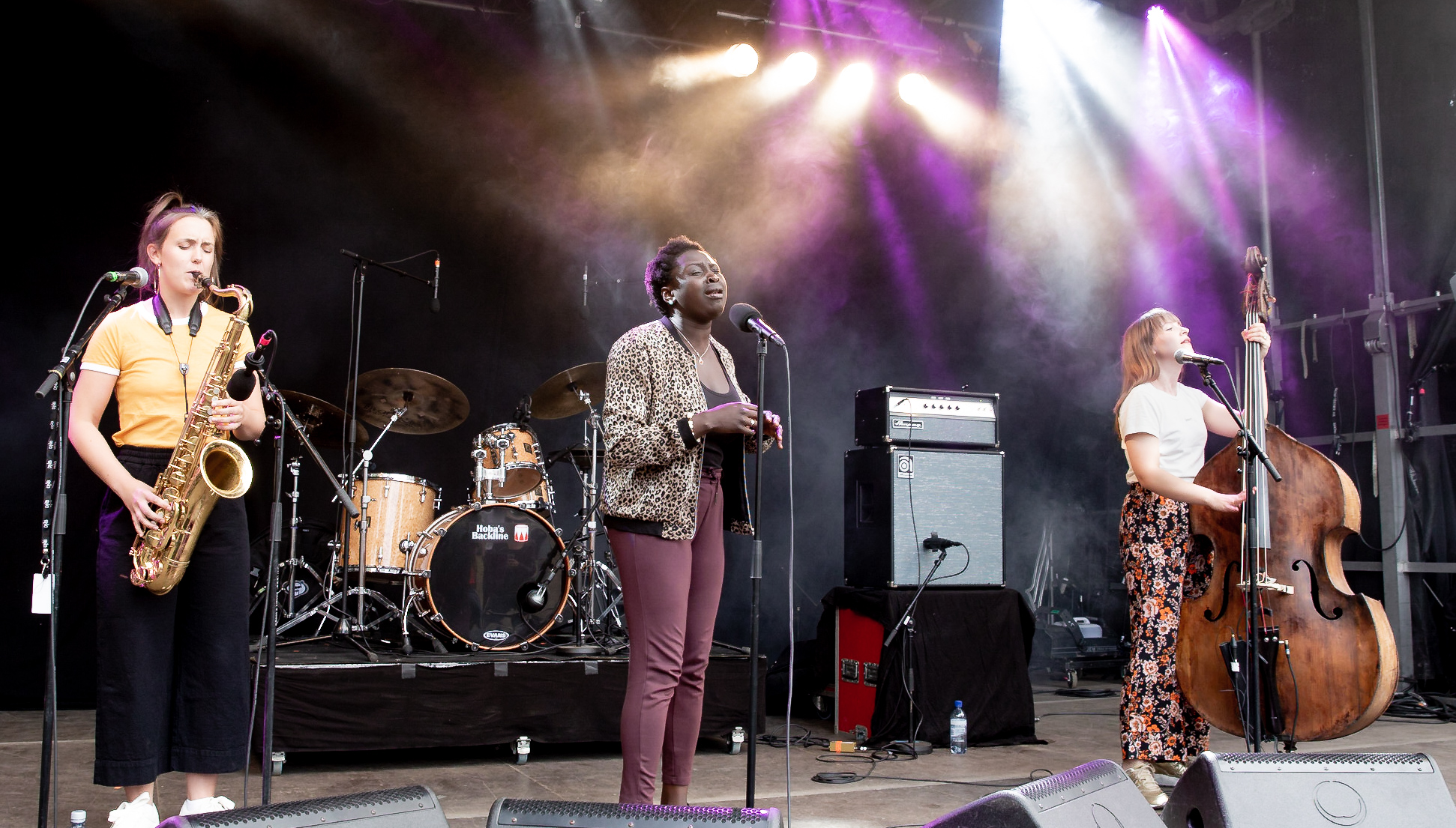 Gurls at the DnB-stage at Grefsenkollen. The concert was part of Over Oslo and took place on 23. June 2018 in Oslo. Lineup: Ellen Andrea Wang (double bass) Hanna Paulsberg (saxophone) Rohey Taalah (vocal) Elias Tafjord (drums)